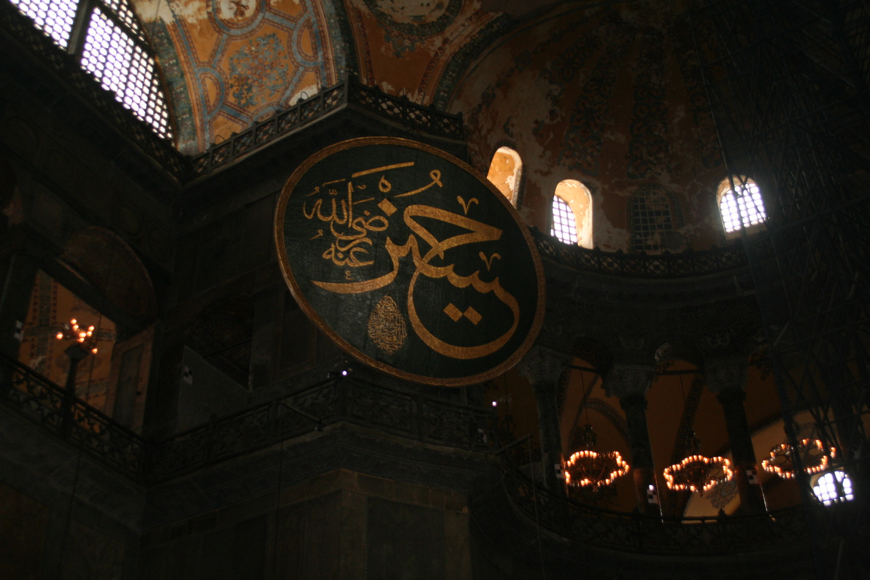 Interior of Hagia Sophia